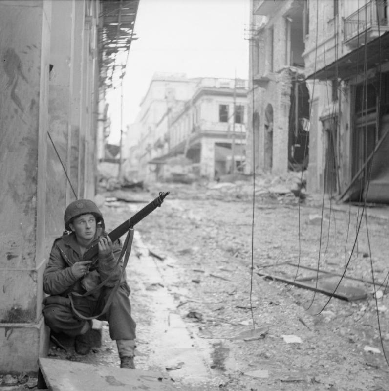 The British Army in Greece 1944 A paratrooper from 5th (Scots) Parachute Battalion, 2nd Parachute Brigade, takes cover on a street corner in Athens during operations against members of ELAS, 18 December 1944.